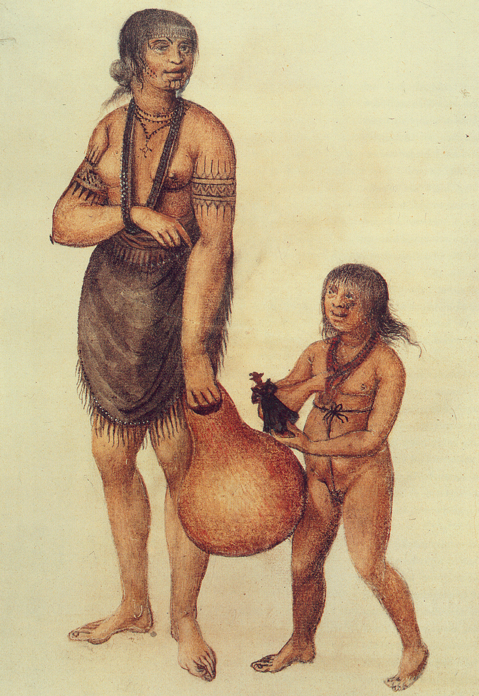 Mother and child of the Secotan Indians in North Carolina. Watercolour painted by John White in 1585.